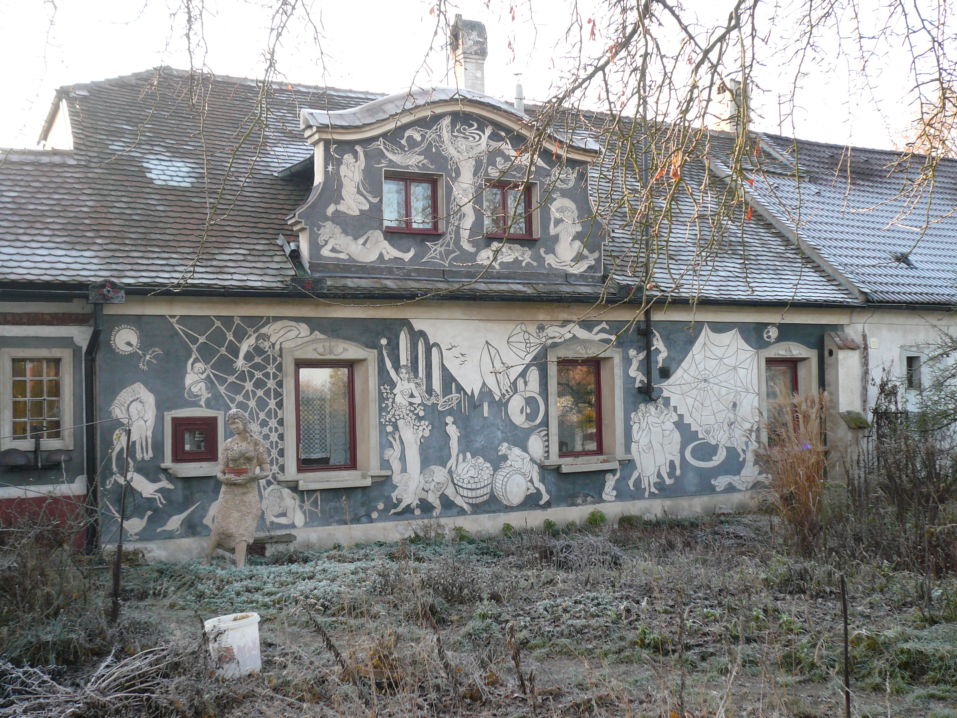 Murals at house of Eva Filemonova in Ostresany, Czech Republic.